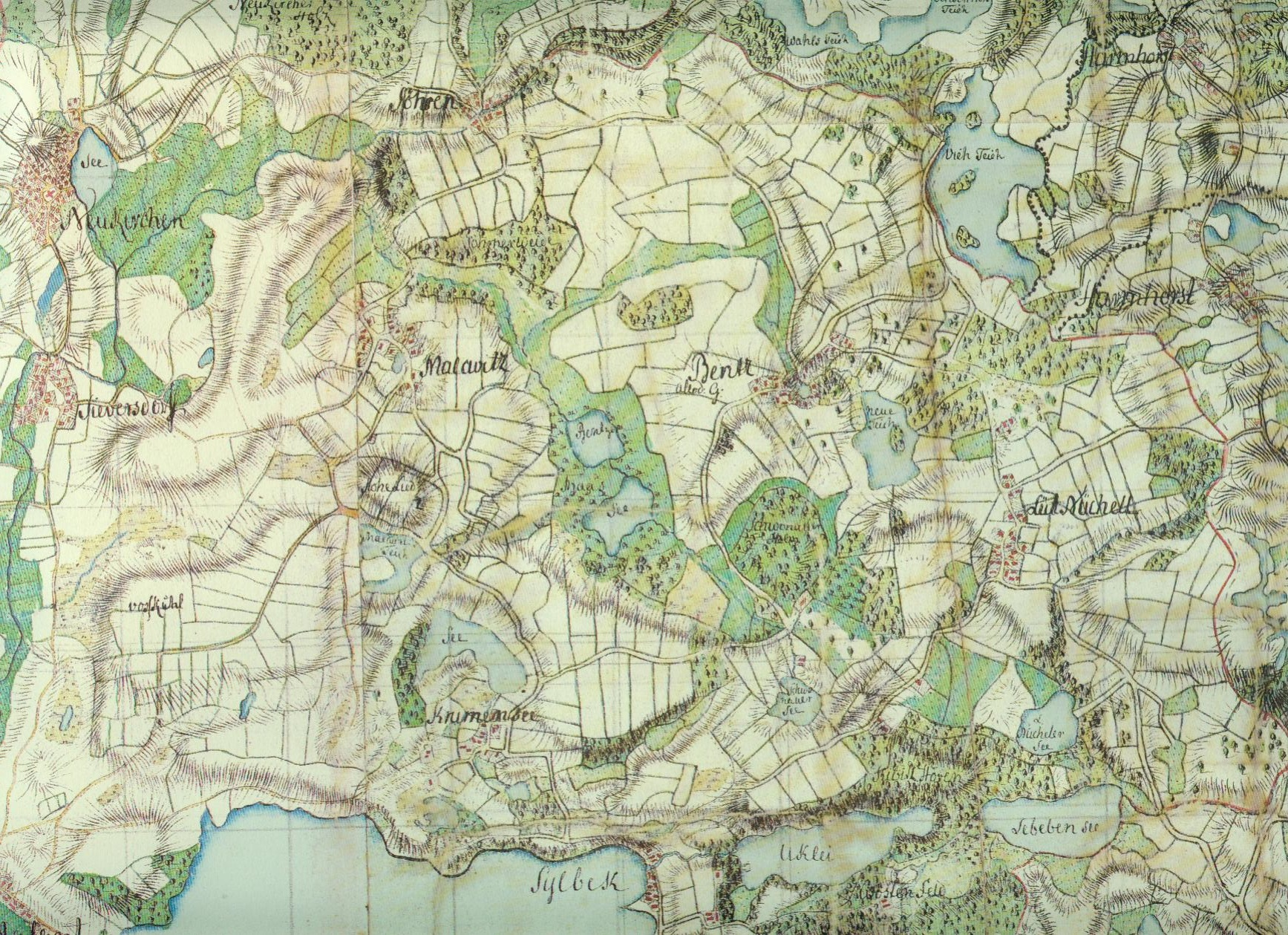 extract from Topographisch Militärische Charte des Herzogtums Holstein (1789-1796)